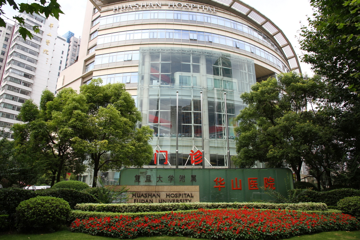 Huashan Hospital located in Shanghai China